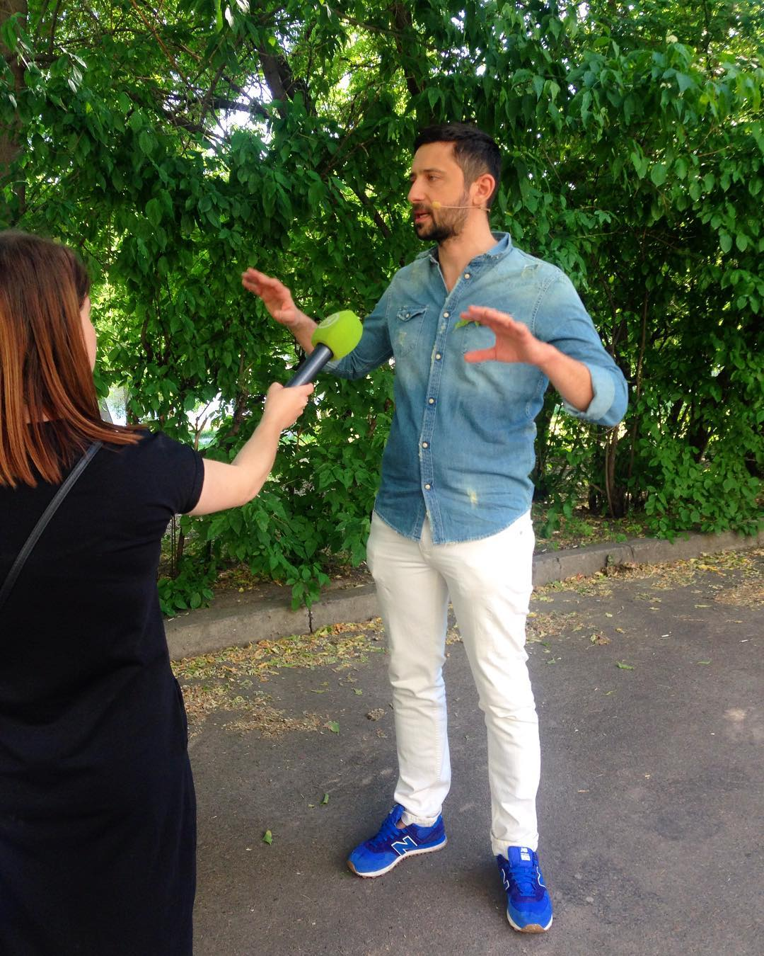 Андрей Шабанов на интервью.